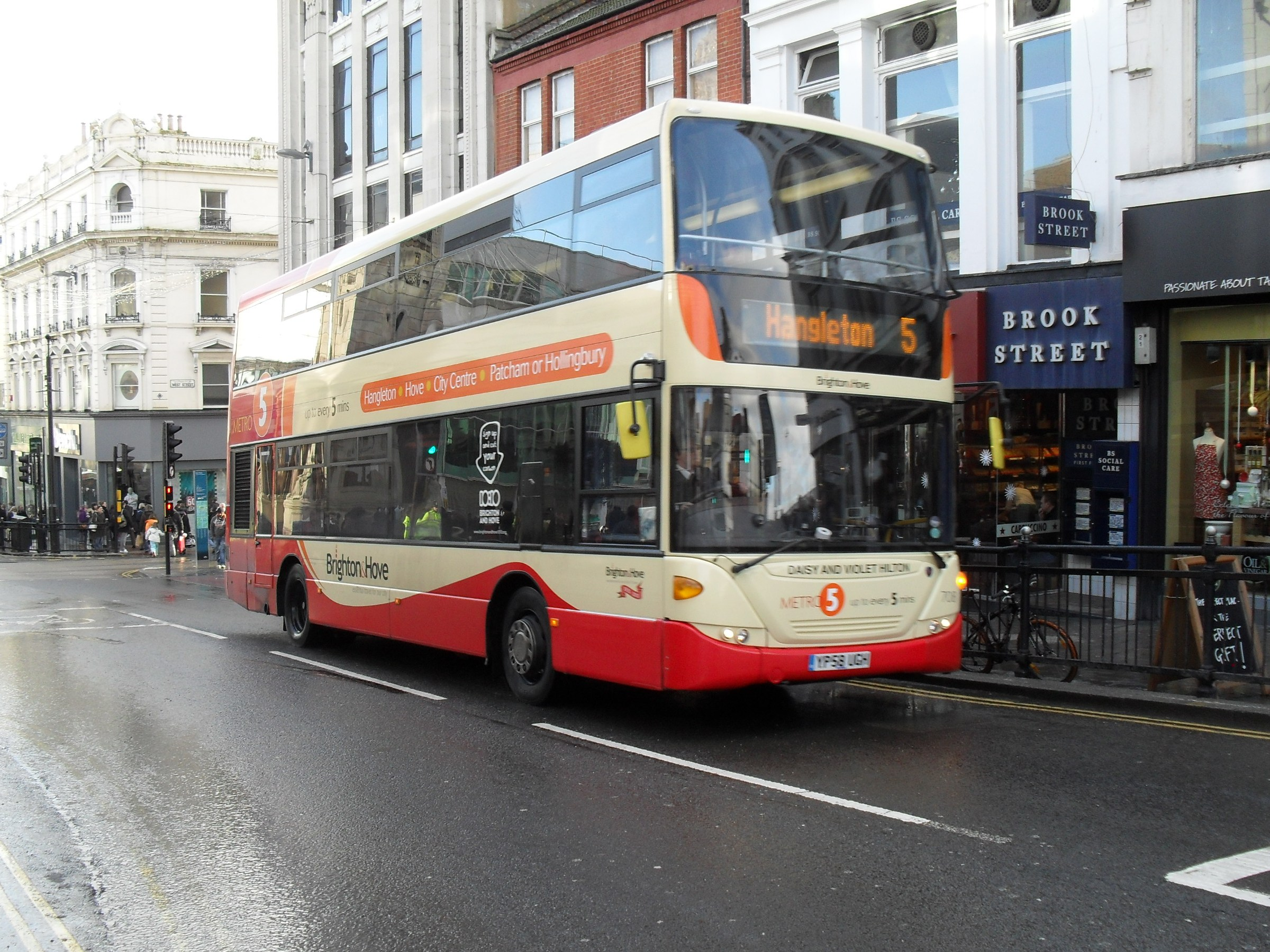 Hangleton-bound buses were stacking up on 18th December 2010 because of traffic problems caused by the snowy weather. Here, YP58 UGH passes with a route #5 service.